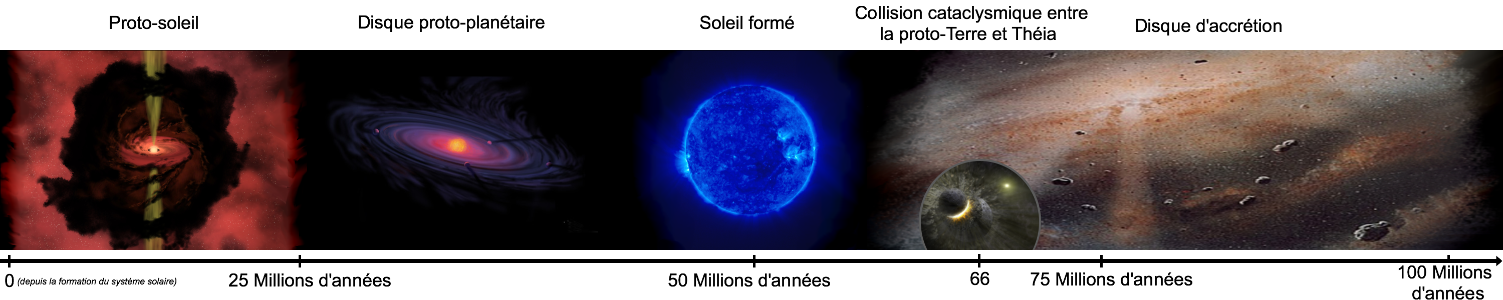 composition of the evolution of the solar system - Second part